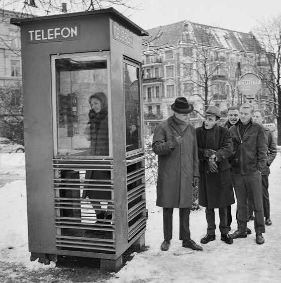 Telephone booth Norway 1965Norsk bokmål: Johnny Bergh (med hatt) Nandor Hamza (viser klokken) og Stein Roger Bull (hendene i bukselommen). Fotografert i forbindelse med fjernsynsproduksjonen "Kunden har alltid rett".